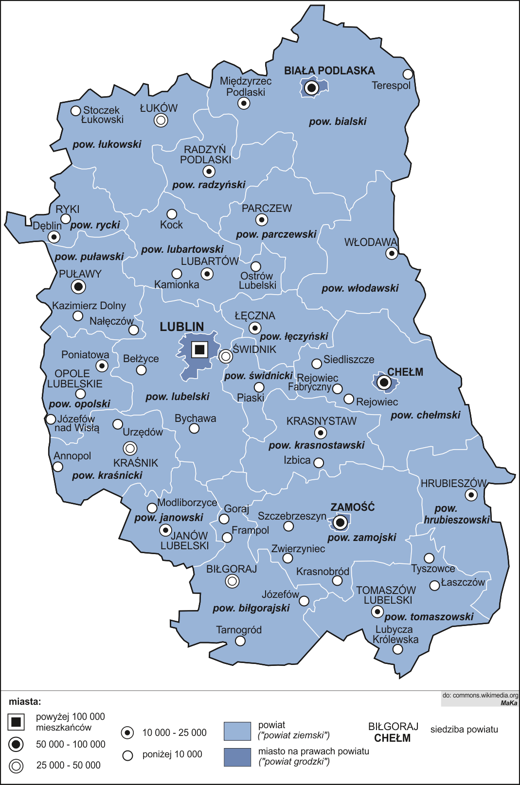 Lublin Voivodeship map